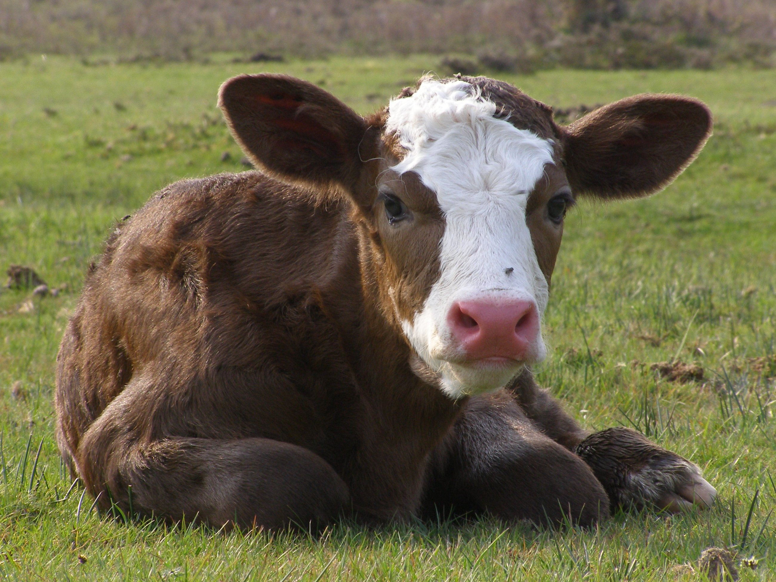 A calf in England, New Forest national park. ("Not afraid of a close-up, but he went running when mother mooed.")